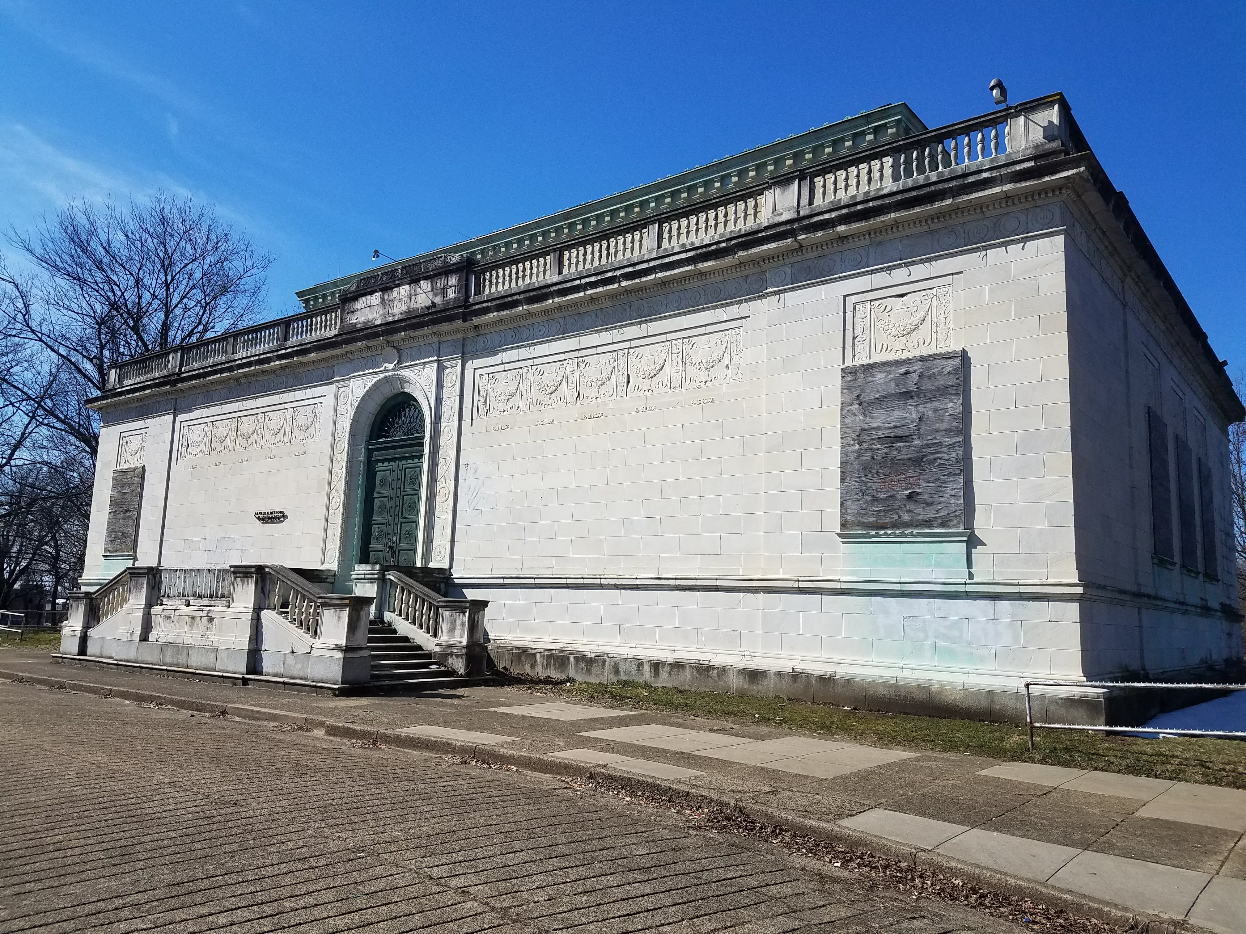 Photo of Alfred O. Deshong Memorial in Deshong Park, Chester, Pennsylvania in 2018